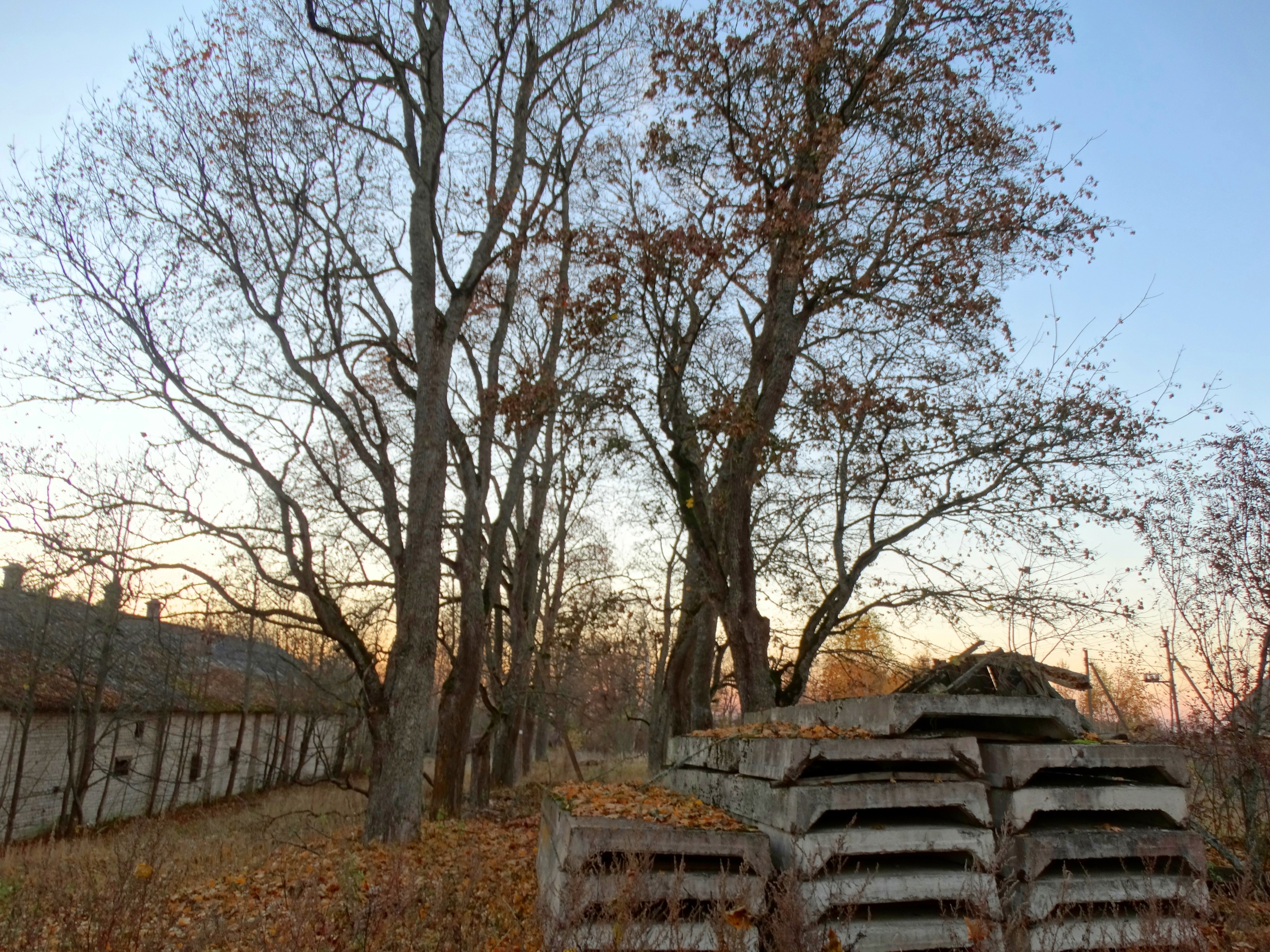 Former Žižmauka manor, Videniškiai, Molėtai district, Lithuania